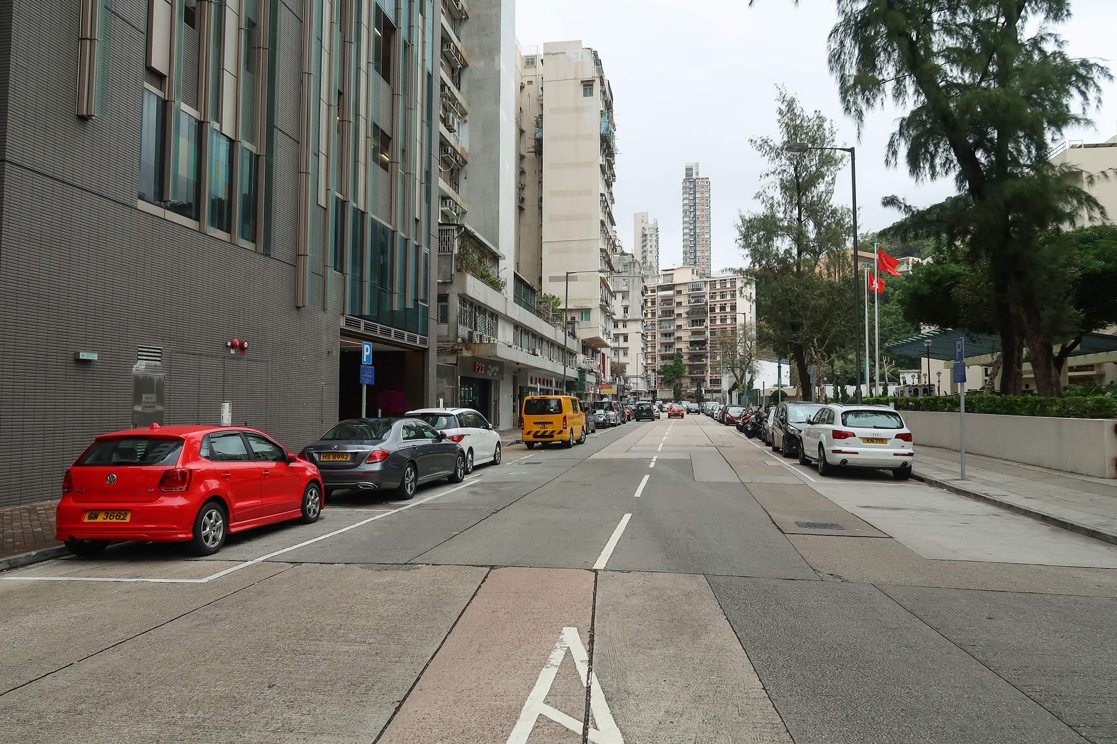 Sai Yeung Choi Street North